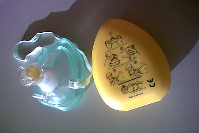 CPR-mask